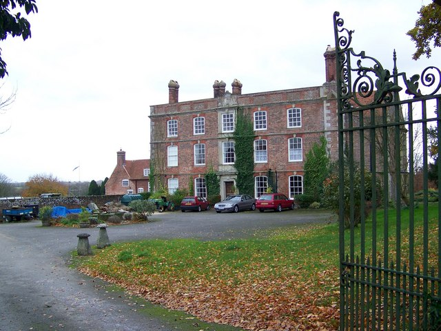 Landford Manor The Manor stands next to St Andrew's Church.